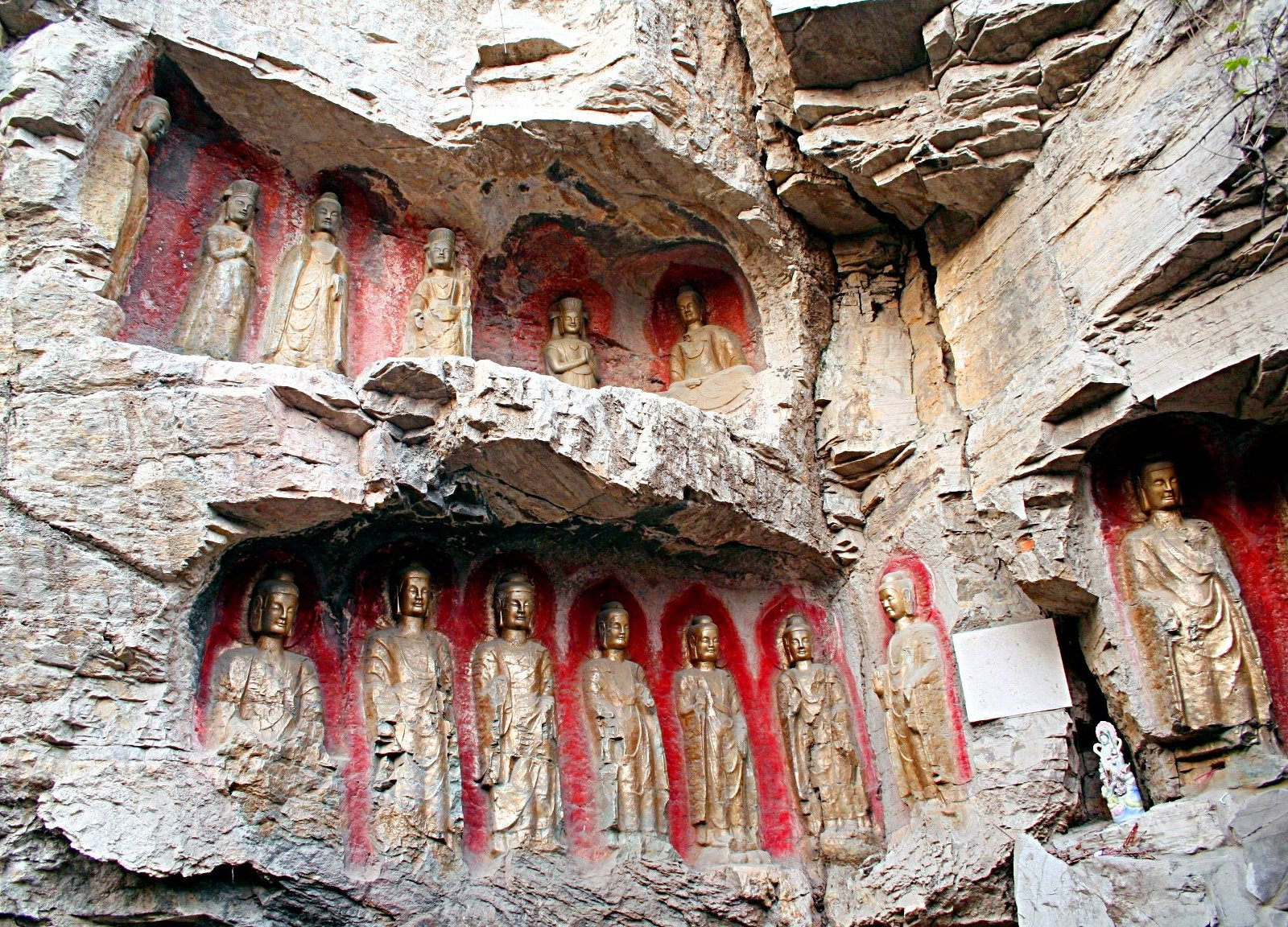 Buddha statues in a cliff on the Thousand Buddha Mountain, Jinan, \ Shandong Province, China.